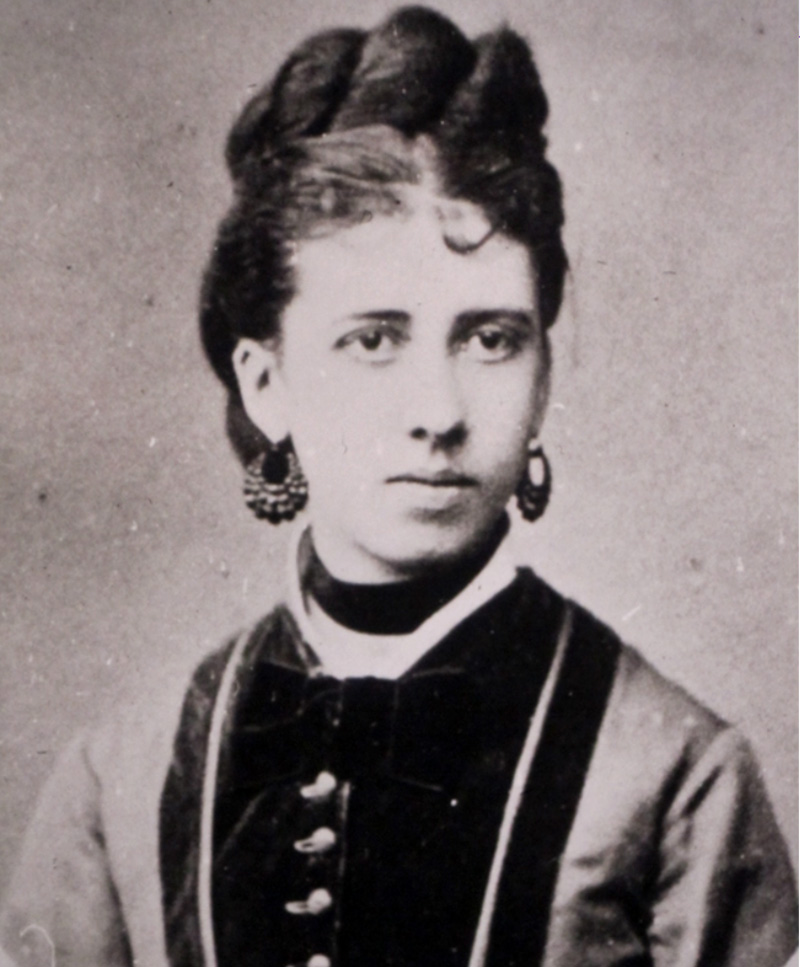 Agnes Gwynne, resident of Lilleybrook, Charlton Kings